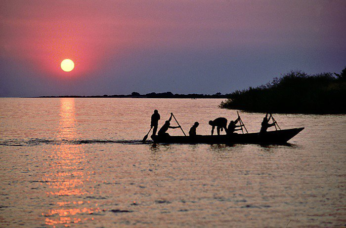 Fisherman on Lake Tanganyika, Mishemba Bay, Zambia.